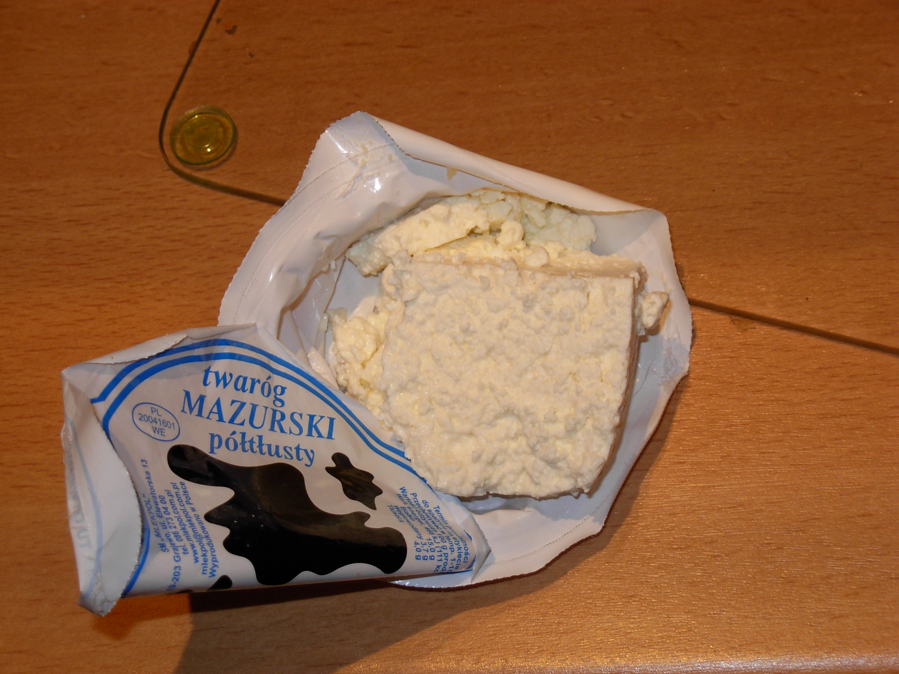 Photo by myself. Quark (cheese)